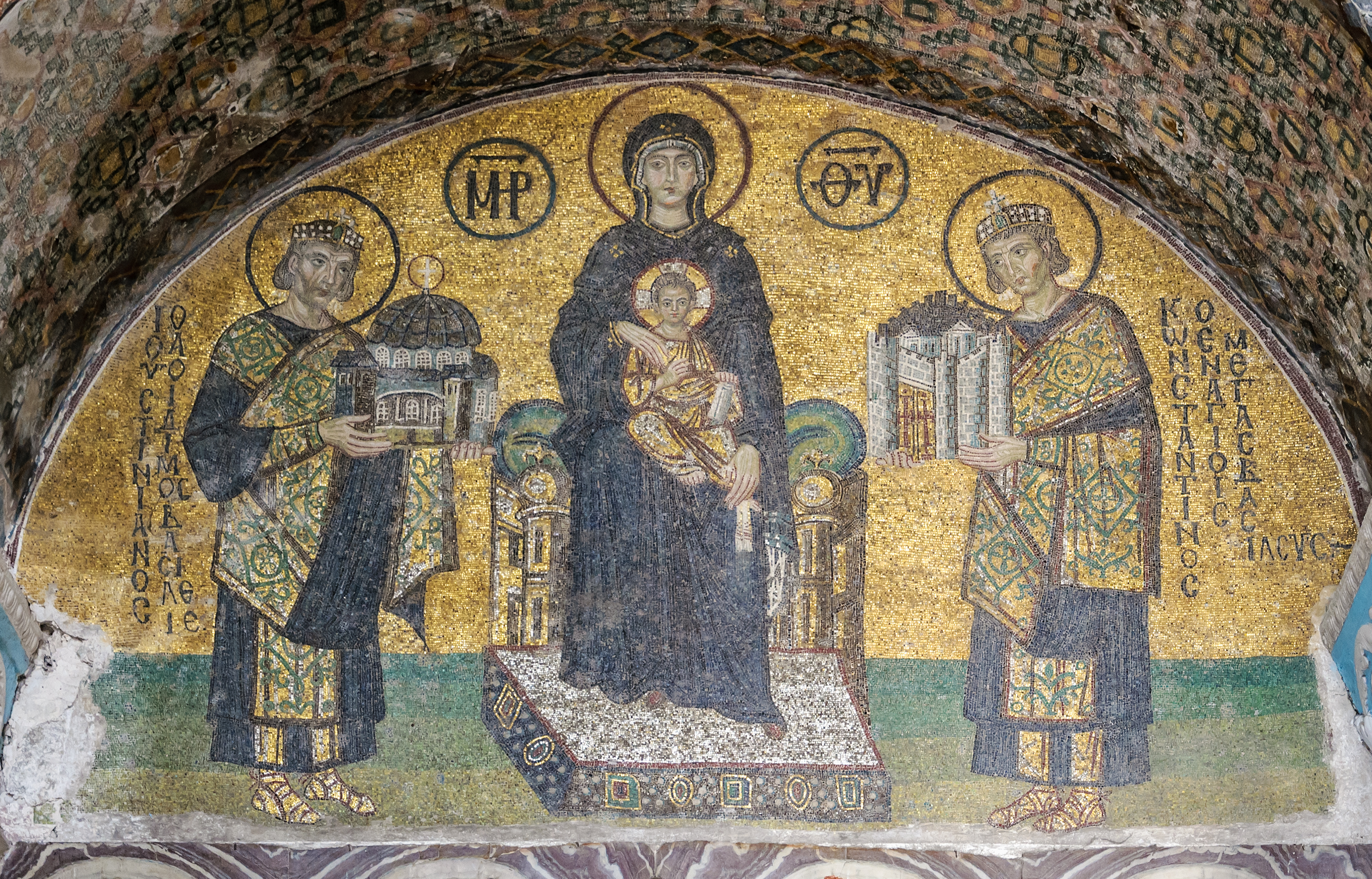 Southwestern entrance mosaic of the former basilica Hagia Sophia of Constantinople (Istanbul, Turkey) The Virgin Mary is standing in the middle, holding the Child Christ on her lap. On her right side stands emperor Justinian I, offering a model of the Hagia Sophia. On her left, emperor Constantine I, presenting a model of the city